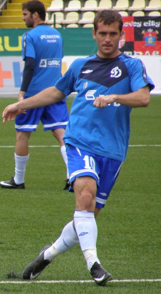 Aleksandr Kerzhakov in action for FC Dinamo Moscow